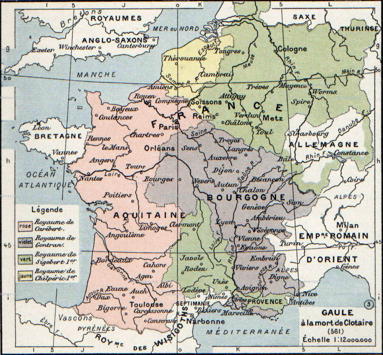 The map comes from Vidal-Lablache, Atlas général d'histoire et de géographie (1894). It shows Gaul in 561 AD.